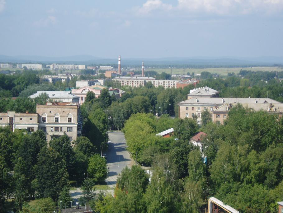 Nevyansk: view on town from inclined tower (2005)